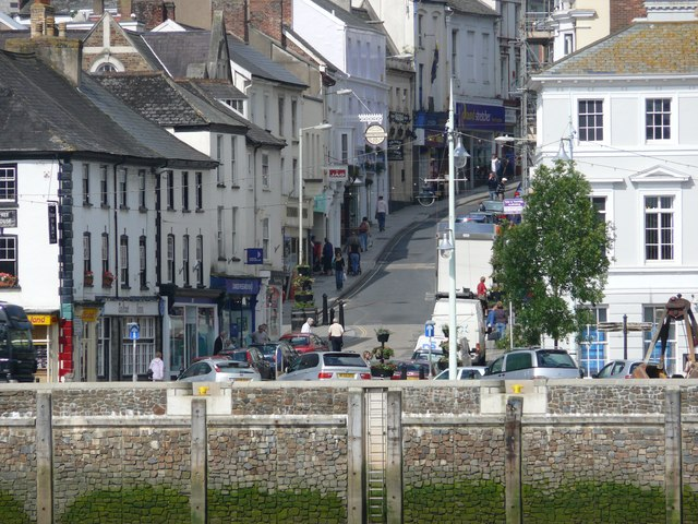 Bideford High Street